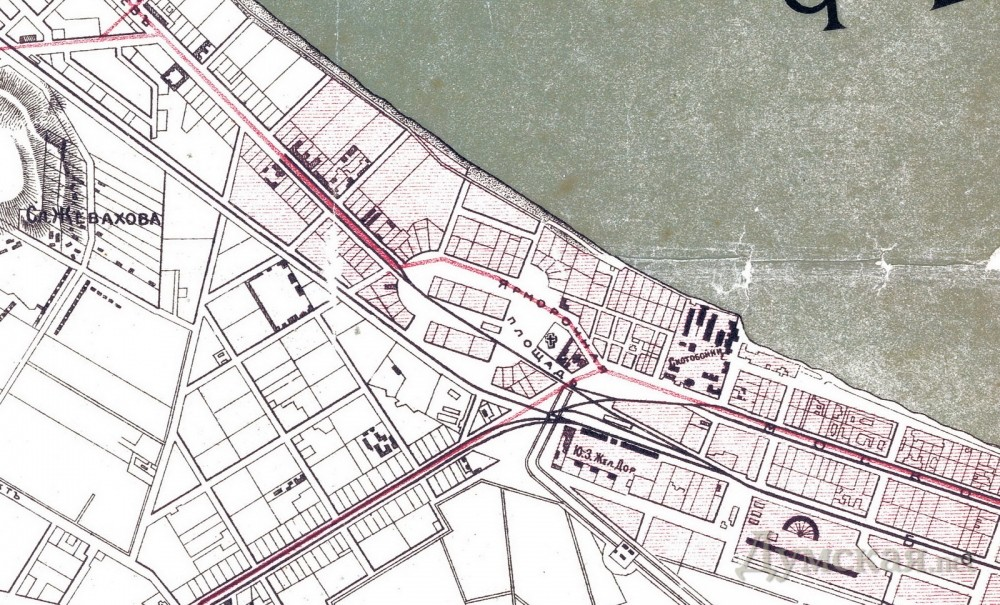 Yarmarkova market square on the old map of Odessa, Ukraine